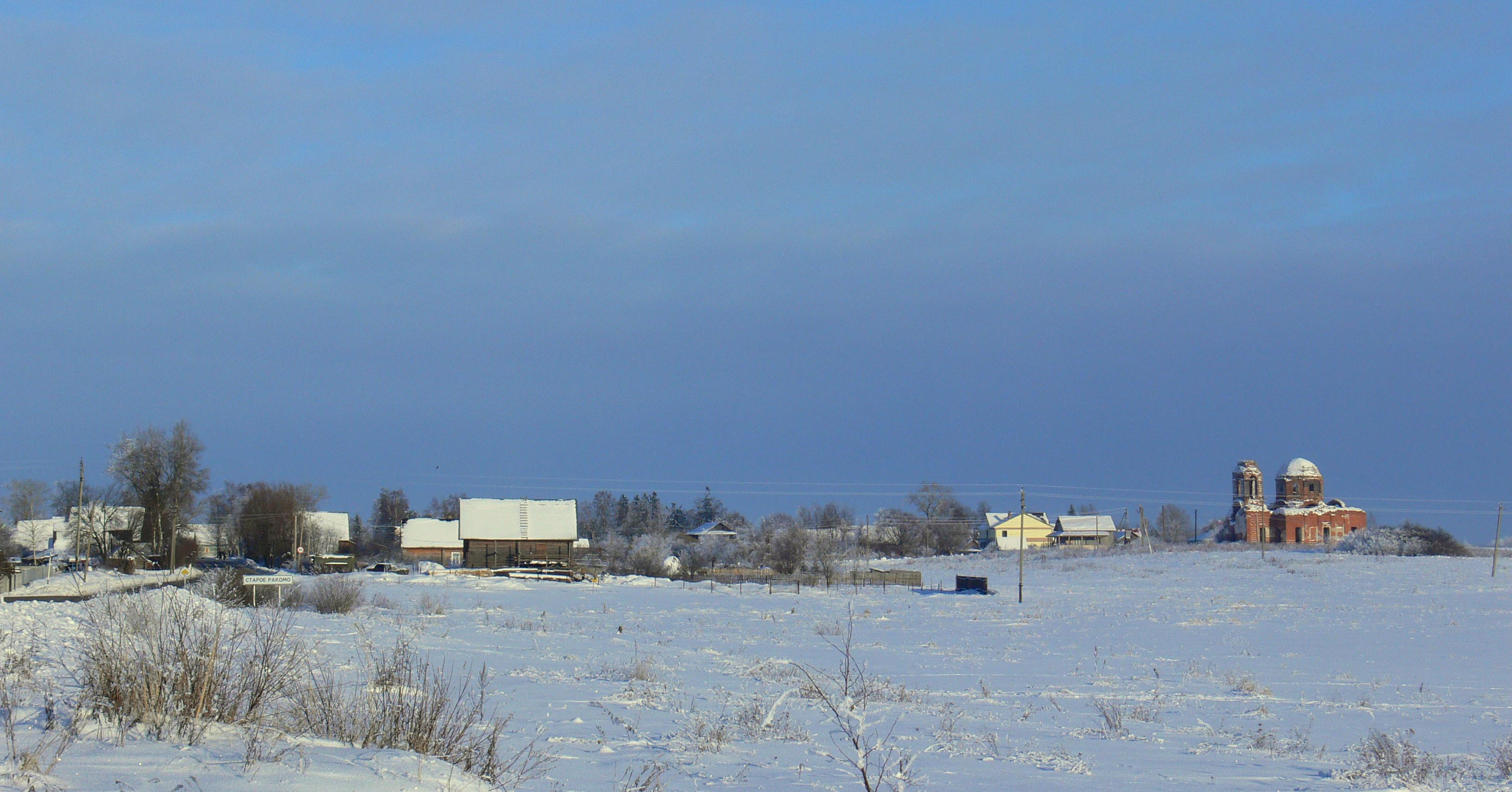 Village Rakomo near Veliky Novgorod.